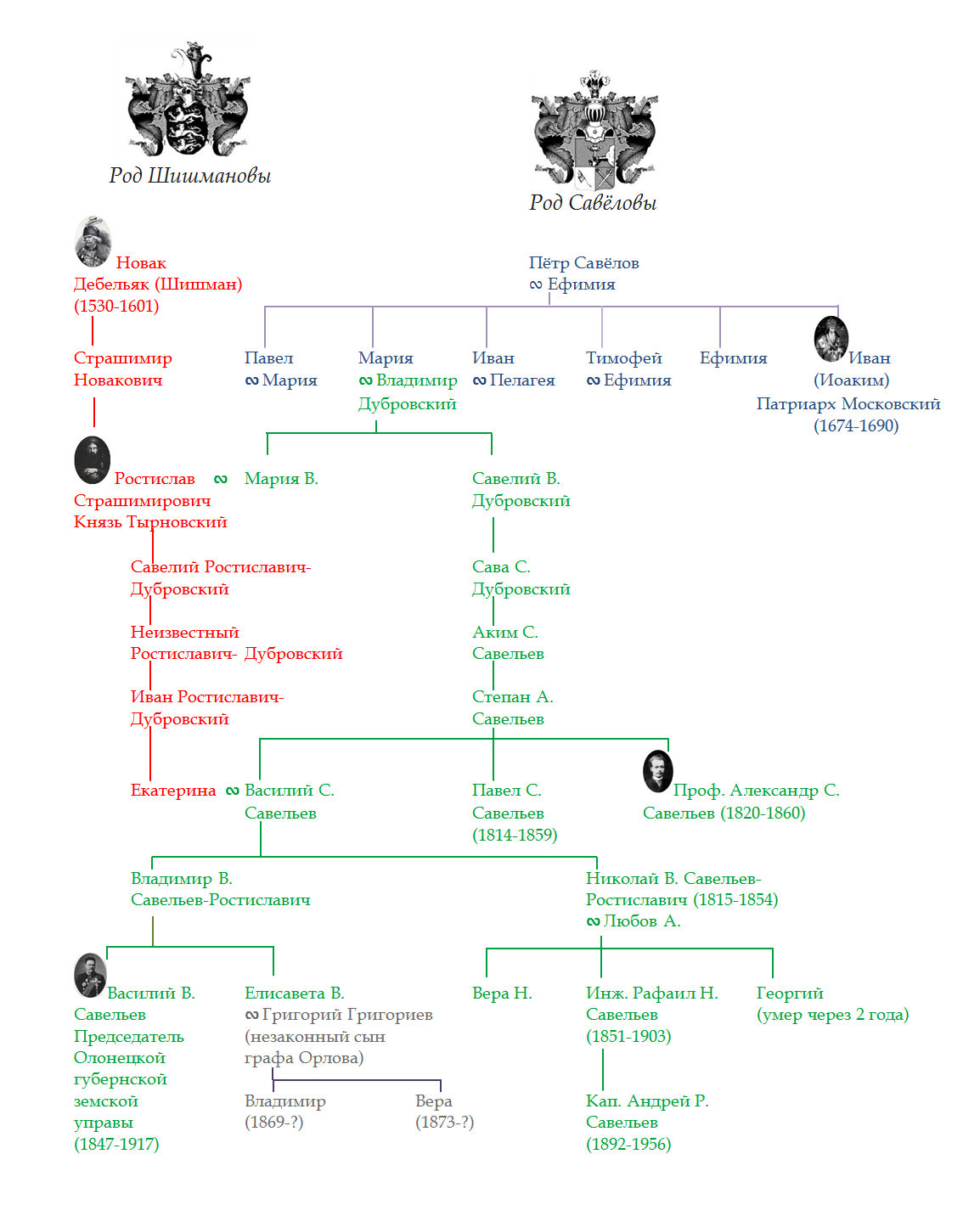 Genealogy tree of Savelev-Rostislavic family.